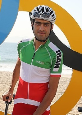 2016 Summer Olympics - Men's individual road race Cycling